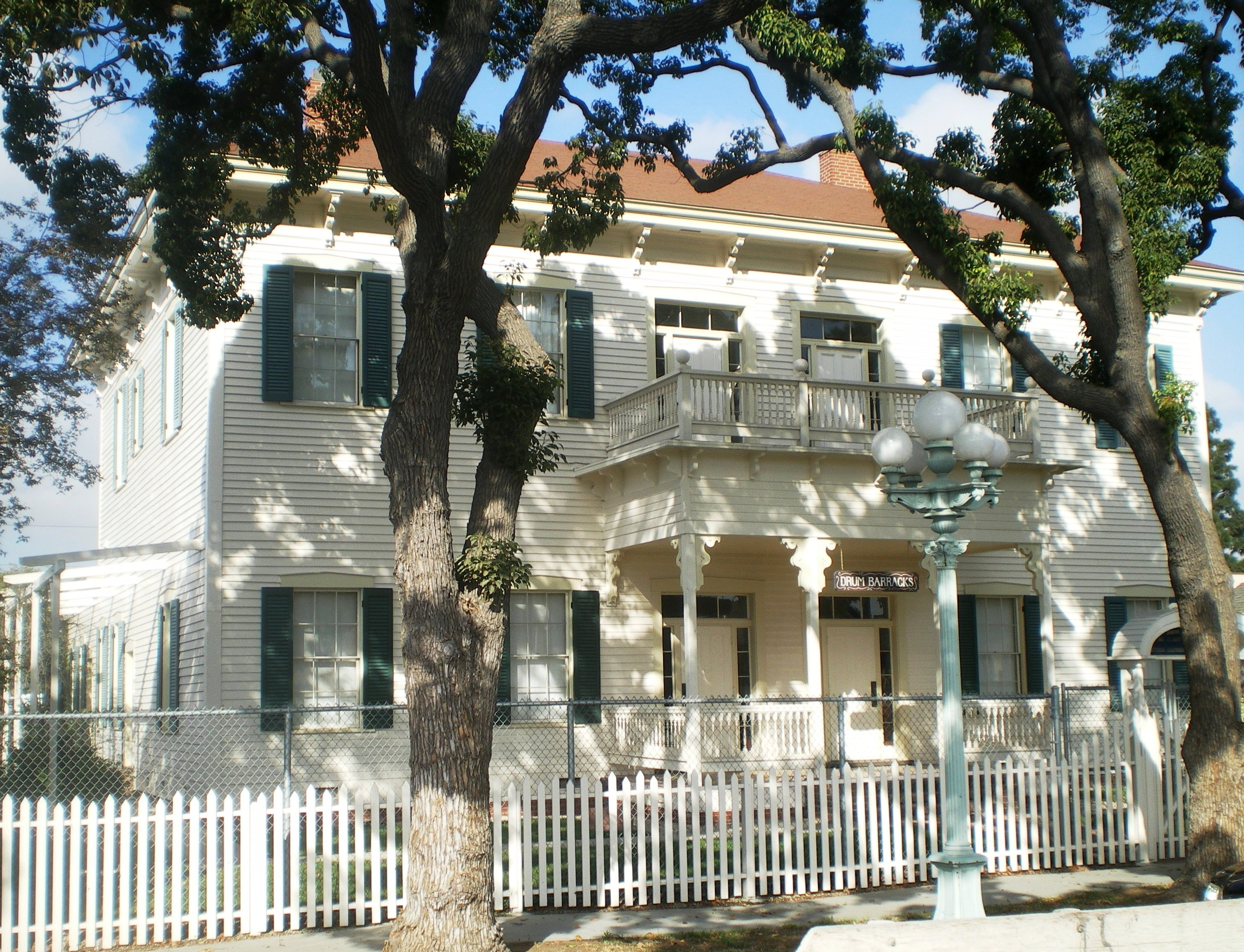 1863 Drum Barracks, and Drum Barracks Civil War Museum — in Wilmington, Los Angeles Harbor area, California. Union Army facility in California during the American Civil War. Built 1862-1863, in the Californian Victorian style.